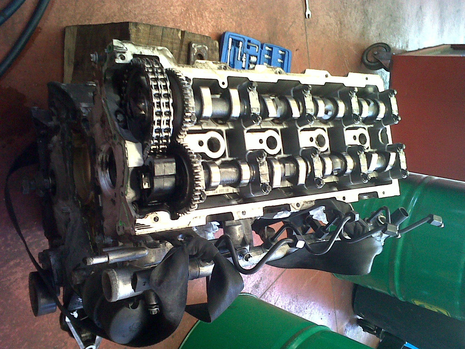 Mixed distribution chain-gear